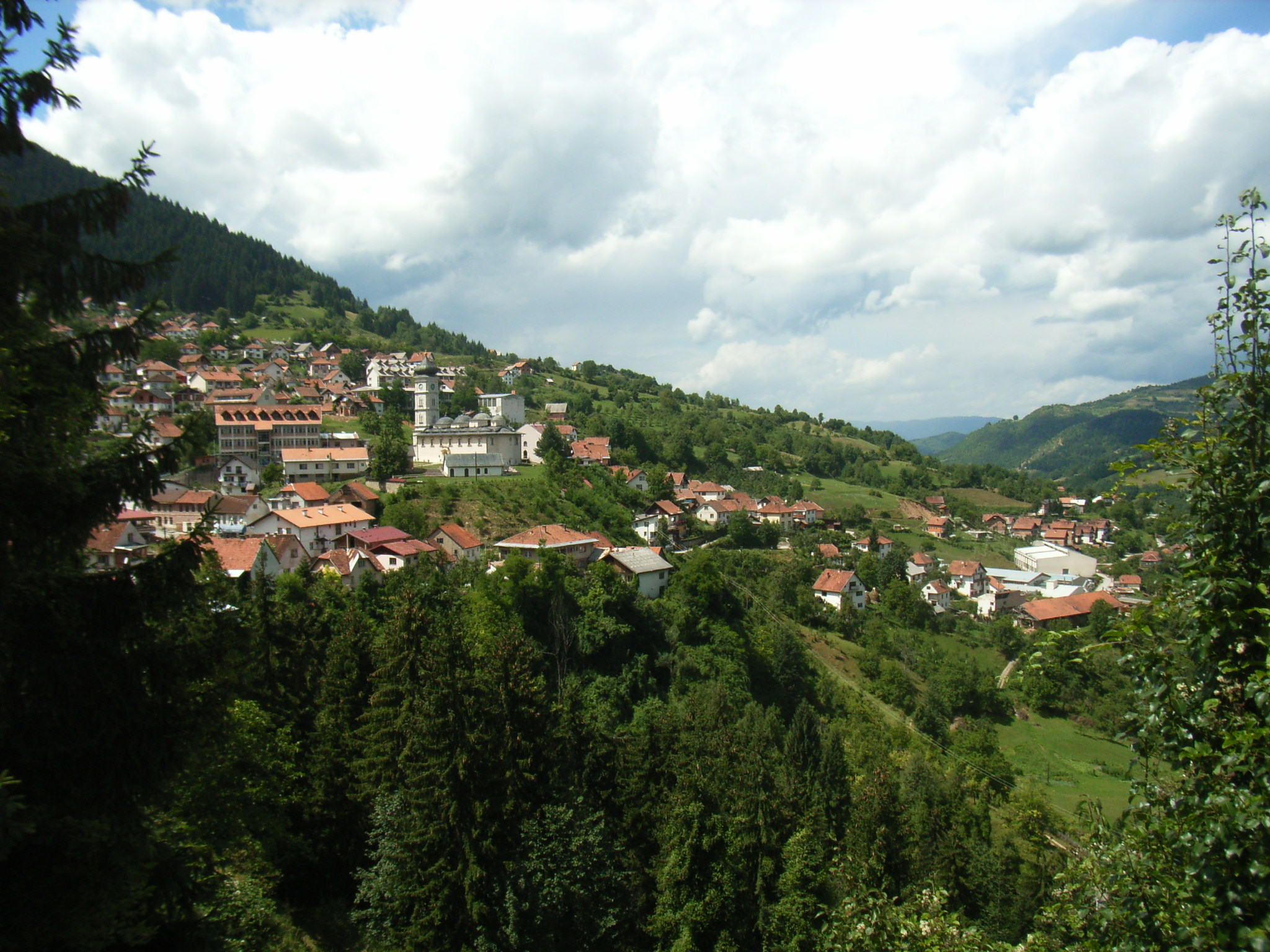 View on Čajniče, Bosnia and Herzegovina.